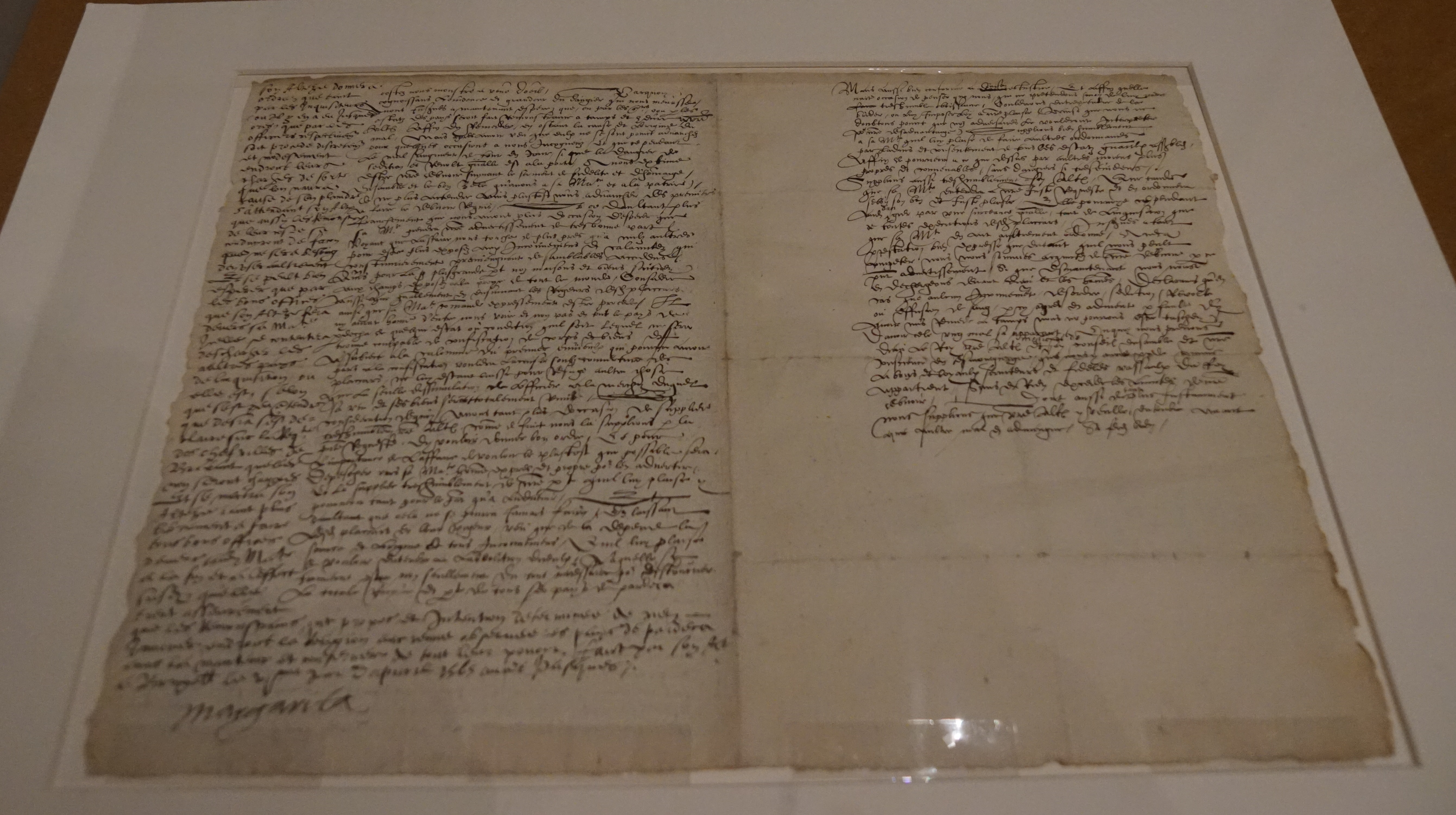 The petition of the Nobles, 5 April 1566. Koninklijke Verzamelingen, Den Haag, Archief van de Oude Dillenburgse Linie inv.nr. A02-719-01. Document on display in the exhibit "80 years war" in the Rijksmuseum Amsterdam.